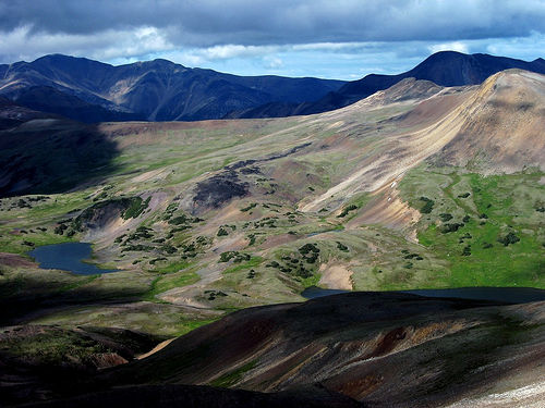 Slopes of the Rainbow Range